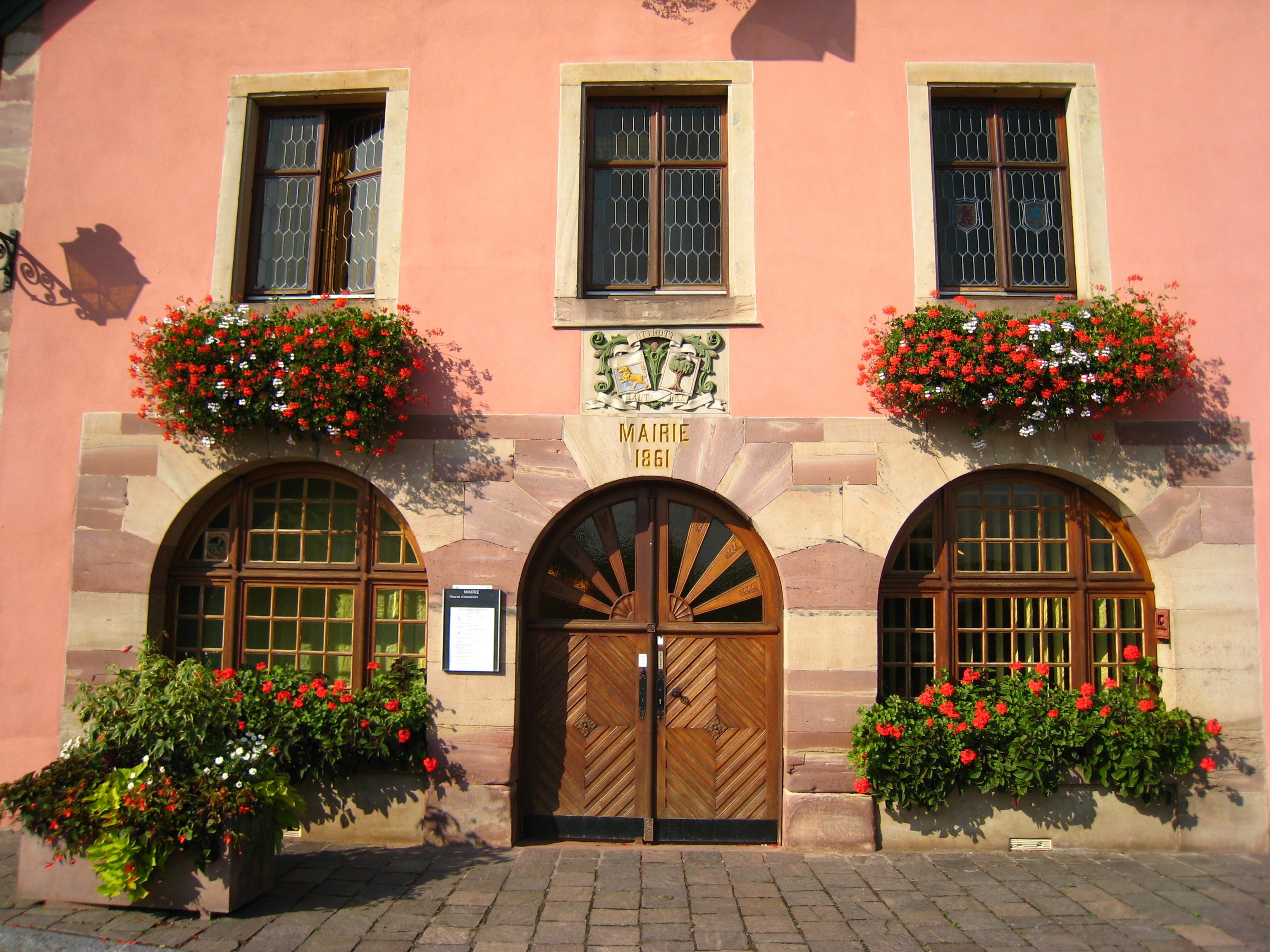 Mayor of Ottrott, Alsace